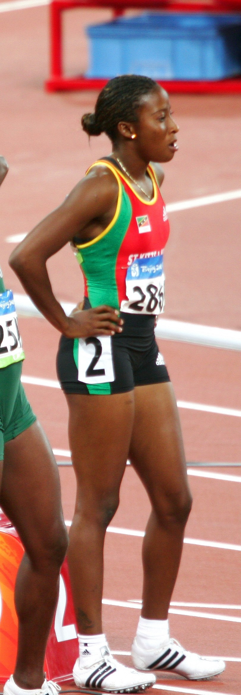 Virgil Hodge in the women's 100m heats inside the National Stadium.